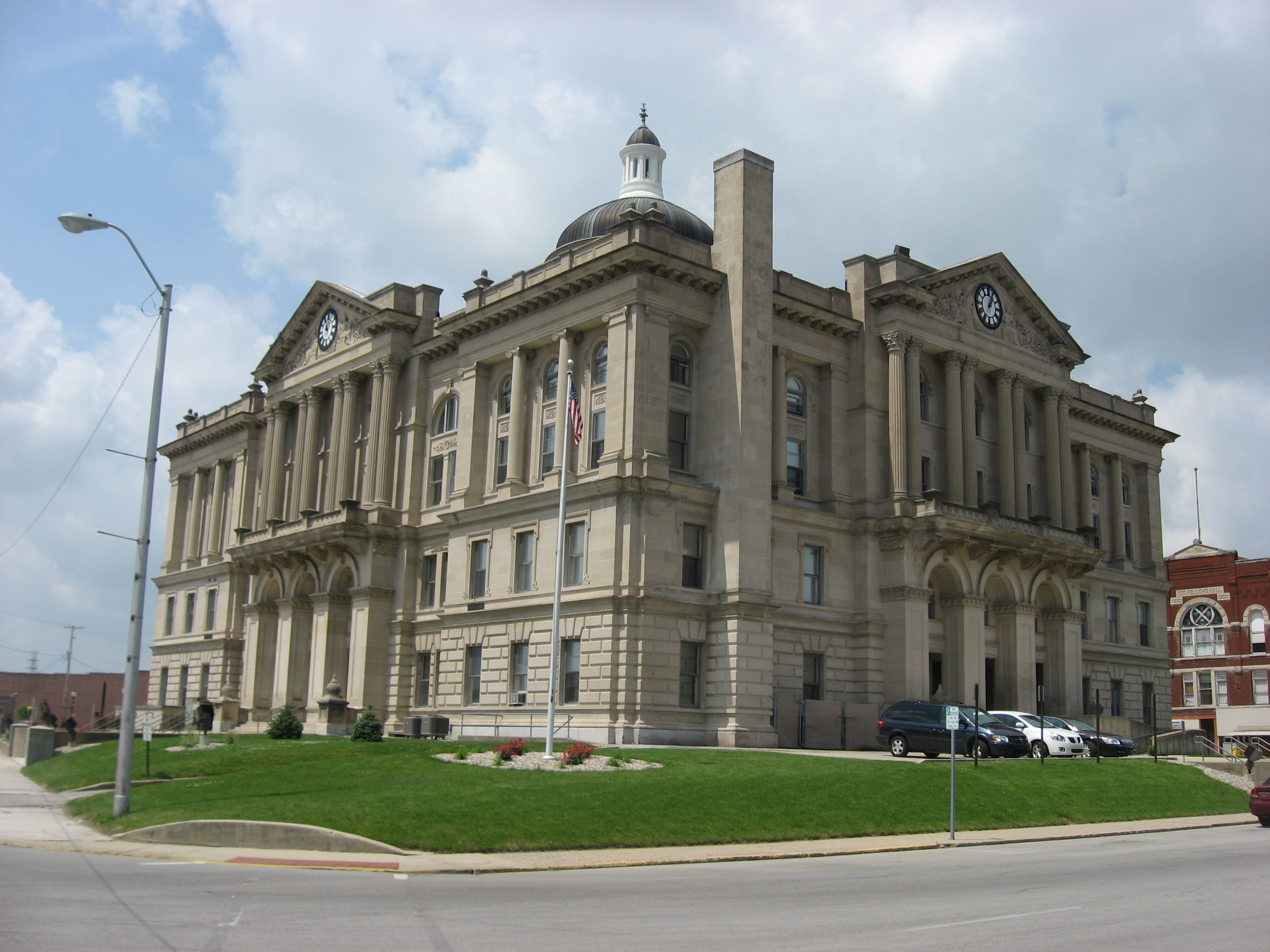 Southern and eastern sides of the Huntington County Courthouse, located on Courthouse Square (surrounded by Franklin, Jefferson, Court, and Warren Streets) in downtown Huntington, Indiana, United States. Built in 1904, it is part of the Huntington Courthouse Square Historic District, a historic district that is listed on the National Register of Historic Places.